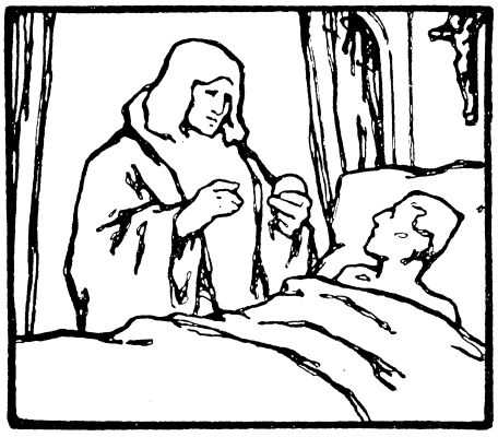 Illustration by Otto Ubbelohde to the fairy tale The Spirit in the Bottle